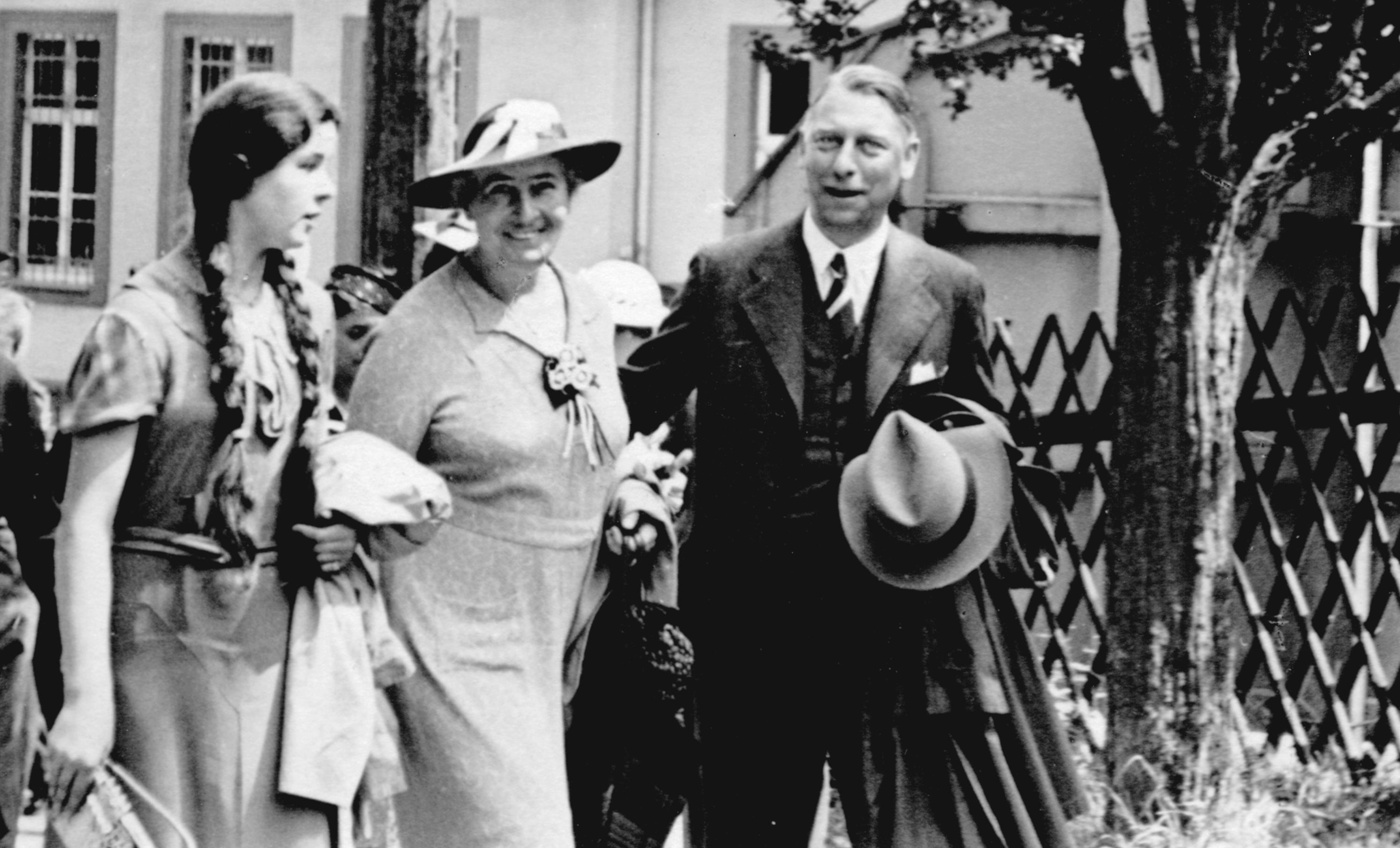 The founder of the Ihagee Johan Steenbergen with wife and nice, 1937